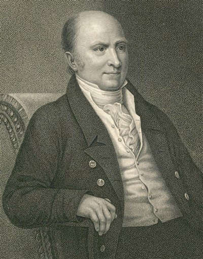 John Quincy Adams the sixth president of the United States from 1824-1829